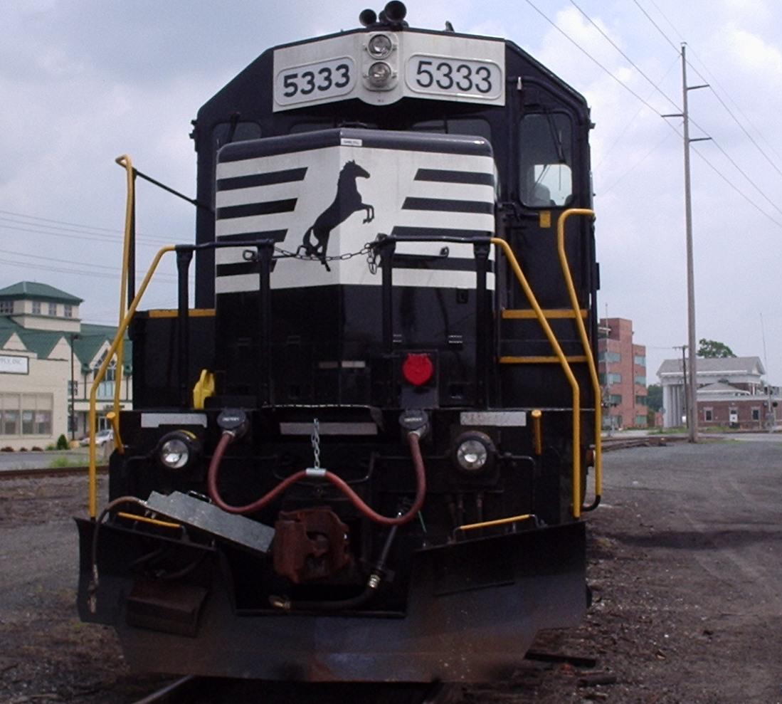 Photo by William J. Grimes. Cropped slightly by Ali'i on 20:26, 5 May 2008 (UTC)